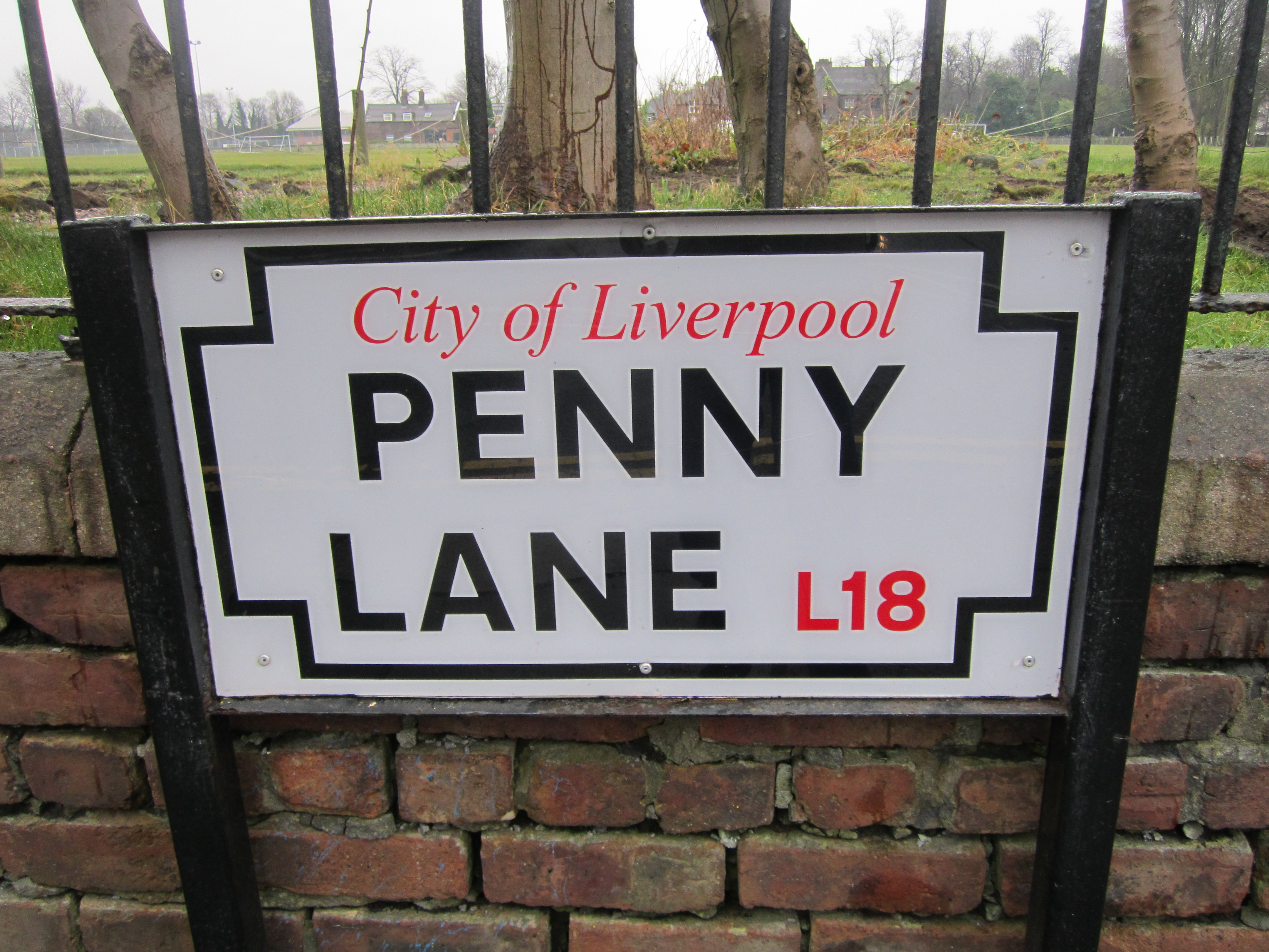 Penny Lane sign, Liverpool, England.